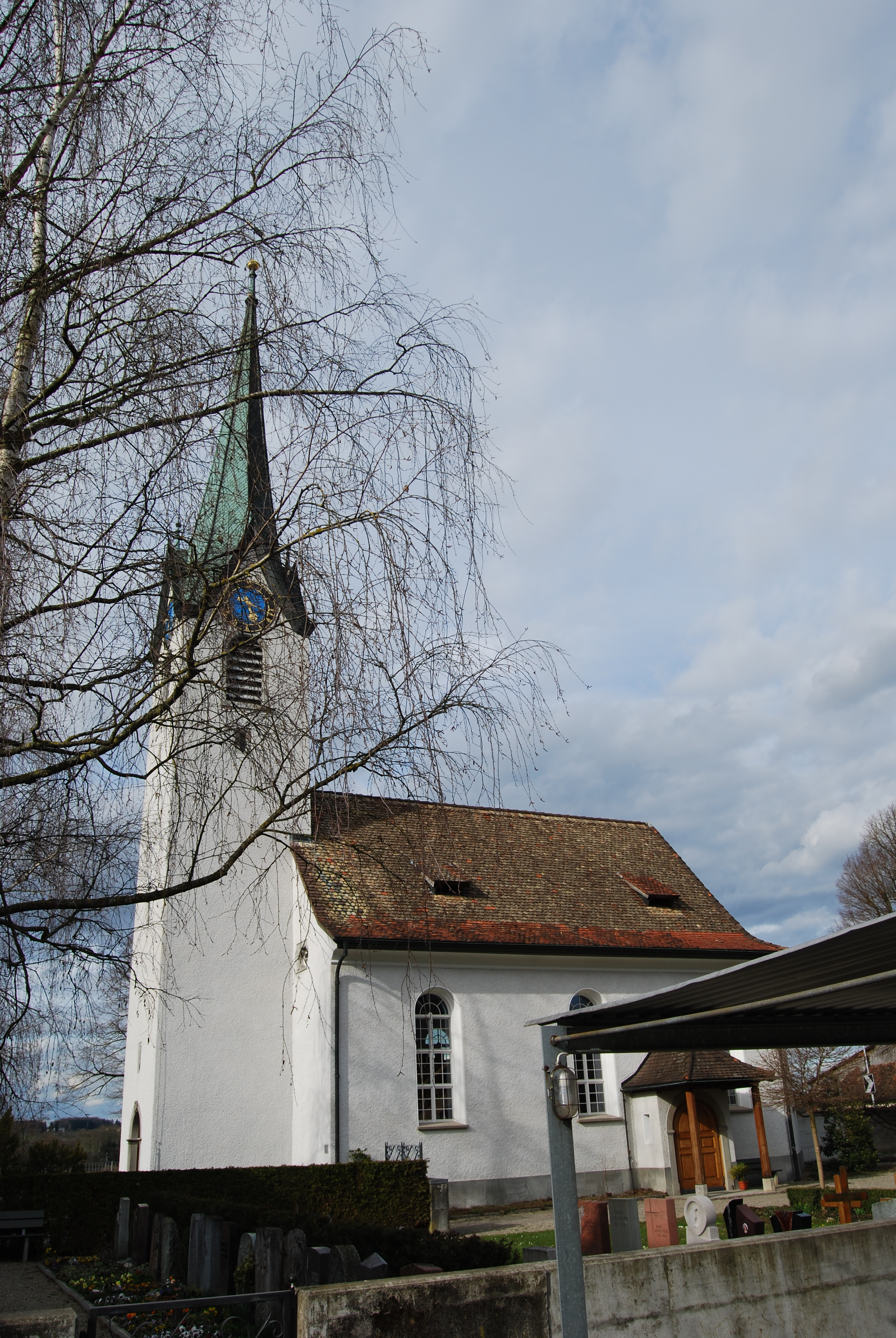 Protestant church of Erlen, canton of Thurgovia, SwitzerlandEsperanto: Reformita preĝejo de Erlen, Kantono Turgovio, Svislando